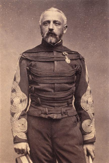 Portrait of french general Félix Douay (1816-1879)